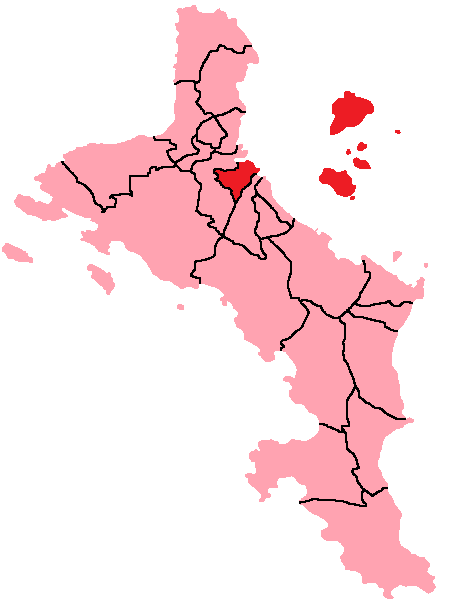 Map of Mahe Island, Seychelles showing Mont Fleuri District; created with the GIMP. Made by User:Acntx.